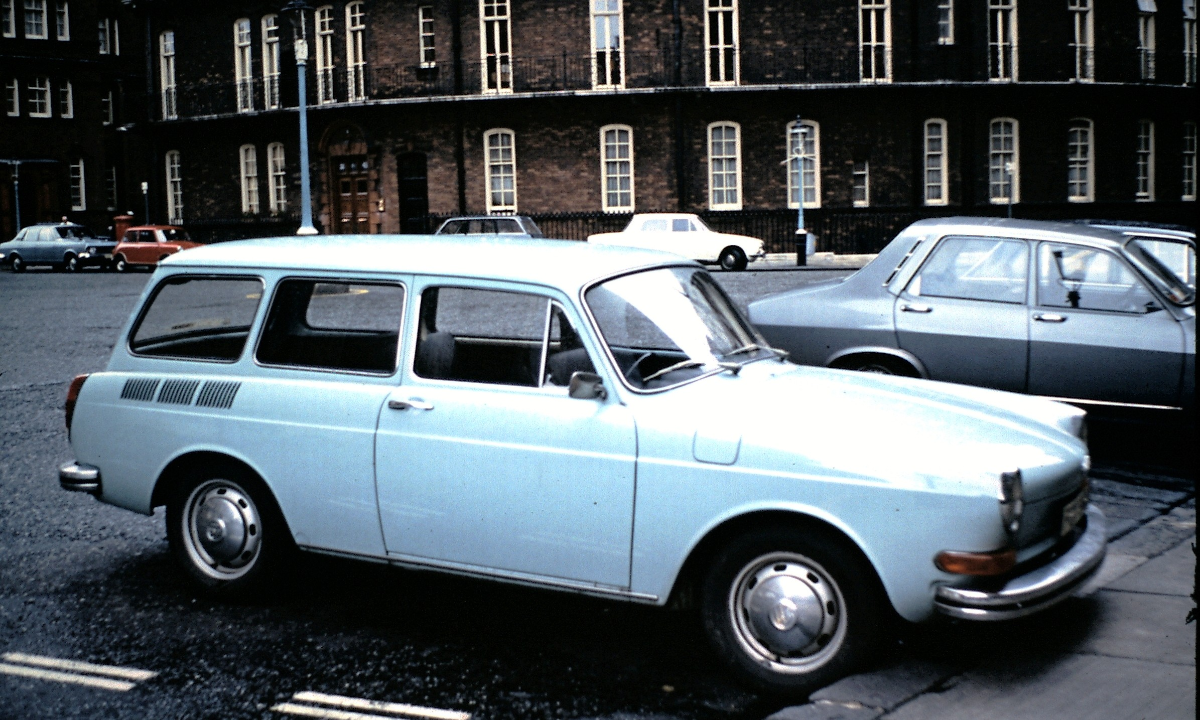 Volkswagen Typ 3 Variant Final Iteration